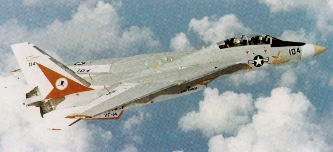 A U.S. Navy Grumman F-14A Tomcat from fighter squadron VF-14 Tophatters in flight in 1975. VF-14 was assigned to Carrier Air Wing 1 (CVW-1) aboard the aircraft carrier USS John F. Kennedy (CV-67) for a deployment to the Mediterranean Sea from 28 June 1975 to 27 January 1976. This was the first deployment of the F-14 Tomcat in the Atlantic (and Mediterranean Sea).